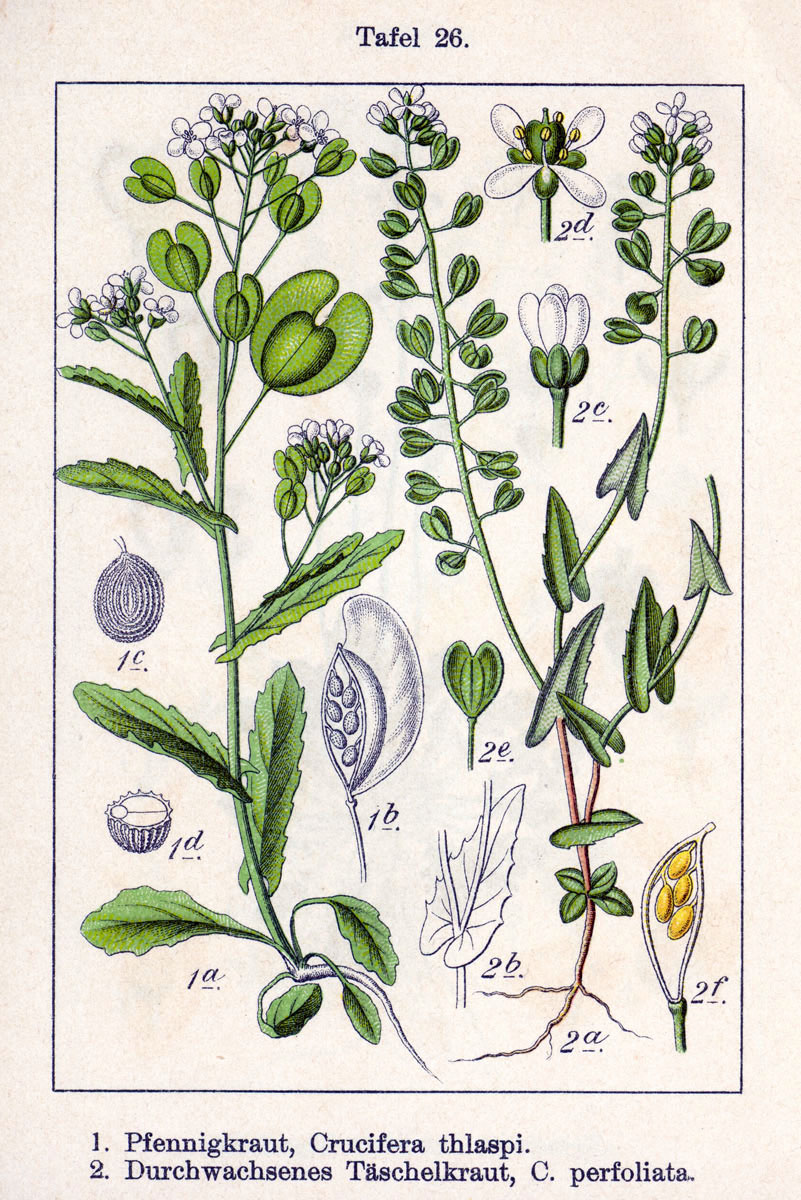 1. Thlaspi arvense L., syn. Crucifera thlaspi (Roxb.) E.H.L.Krause, Crucifera thaspi E.H.L.Krause 2. Thlaspi perfoliatum L., syn. Kandis perfoliata subsp. perfoliata, Crucifera perfoliata (L.) E.H.L.Krause Original Description 1. Pfennigkraut, Crucifera thlaspi 2. Durchwachsenes Täschelkraut, Crucifera perfoliata